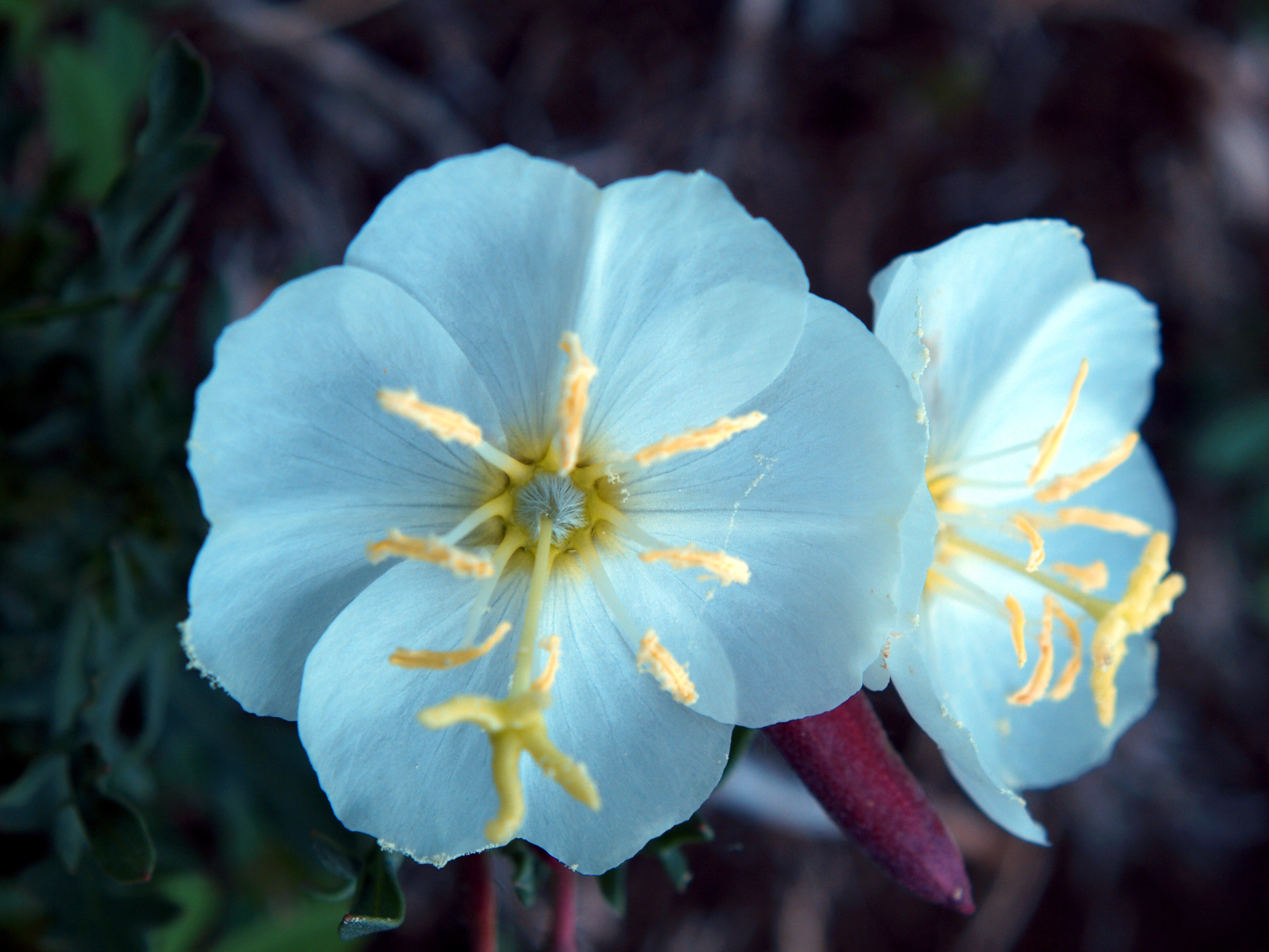 Oenothera albicaulis at Wind Cave National Park, South Dakota, USA